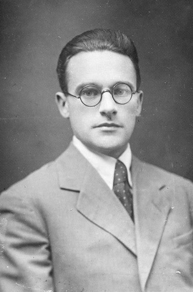 Image of Estonian poet Heiti Talvik (1904–1947) Image has been made black and white and adjusted for lighting by uploader.